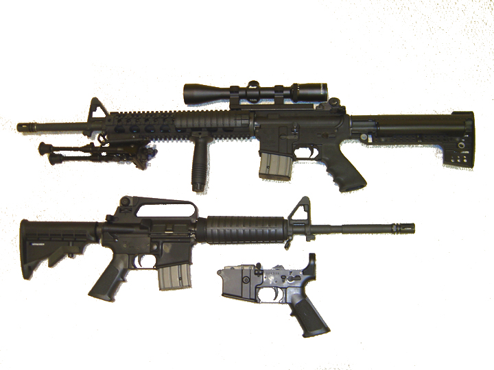 AR-15 rifle with a Stag lower receiver California legal (only with fixed 10-round magazine)